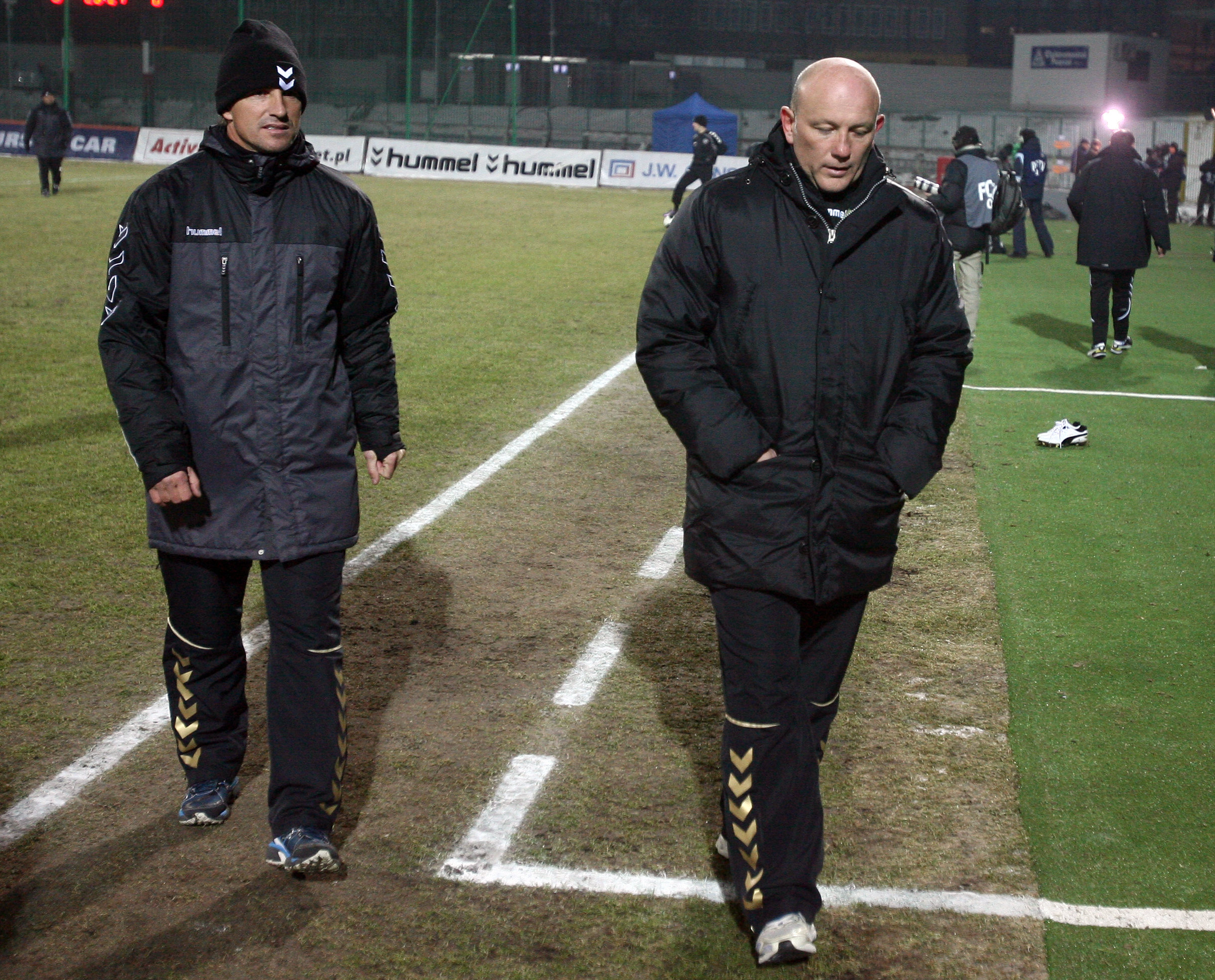 Coach Theo Bos (right) and assistant-coach Marc van Hintum (left) in charge of Polonia Warszawa (2011)